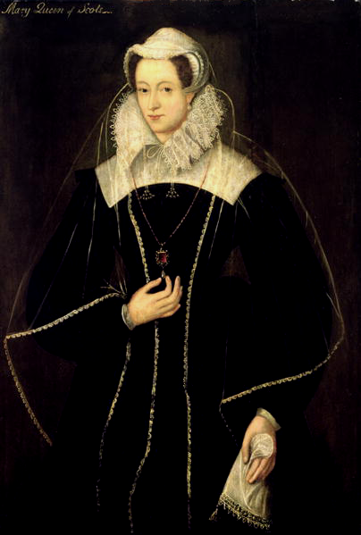 Mary, Queen of Scots